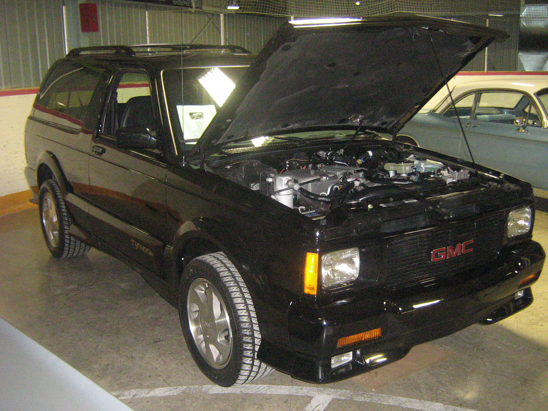 1993 GMC Typhoon with a turbocharged 4.3 L V6. This car was once owned by Cale Huse (the hockey player).